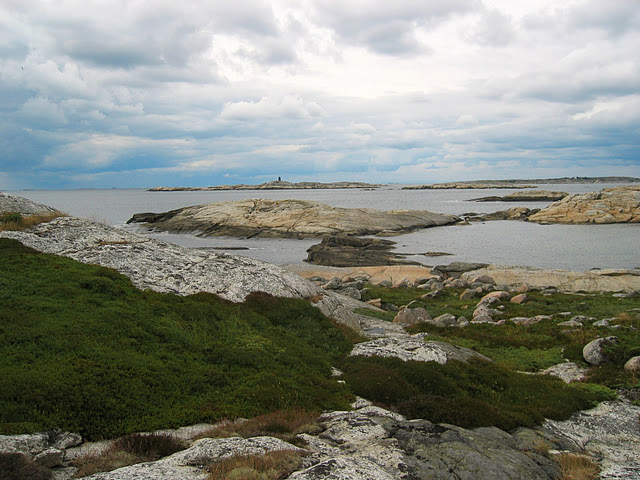 Vegetation in Herføl, Ytre Hvaler national park